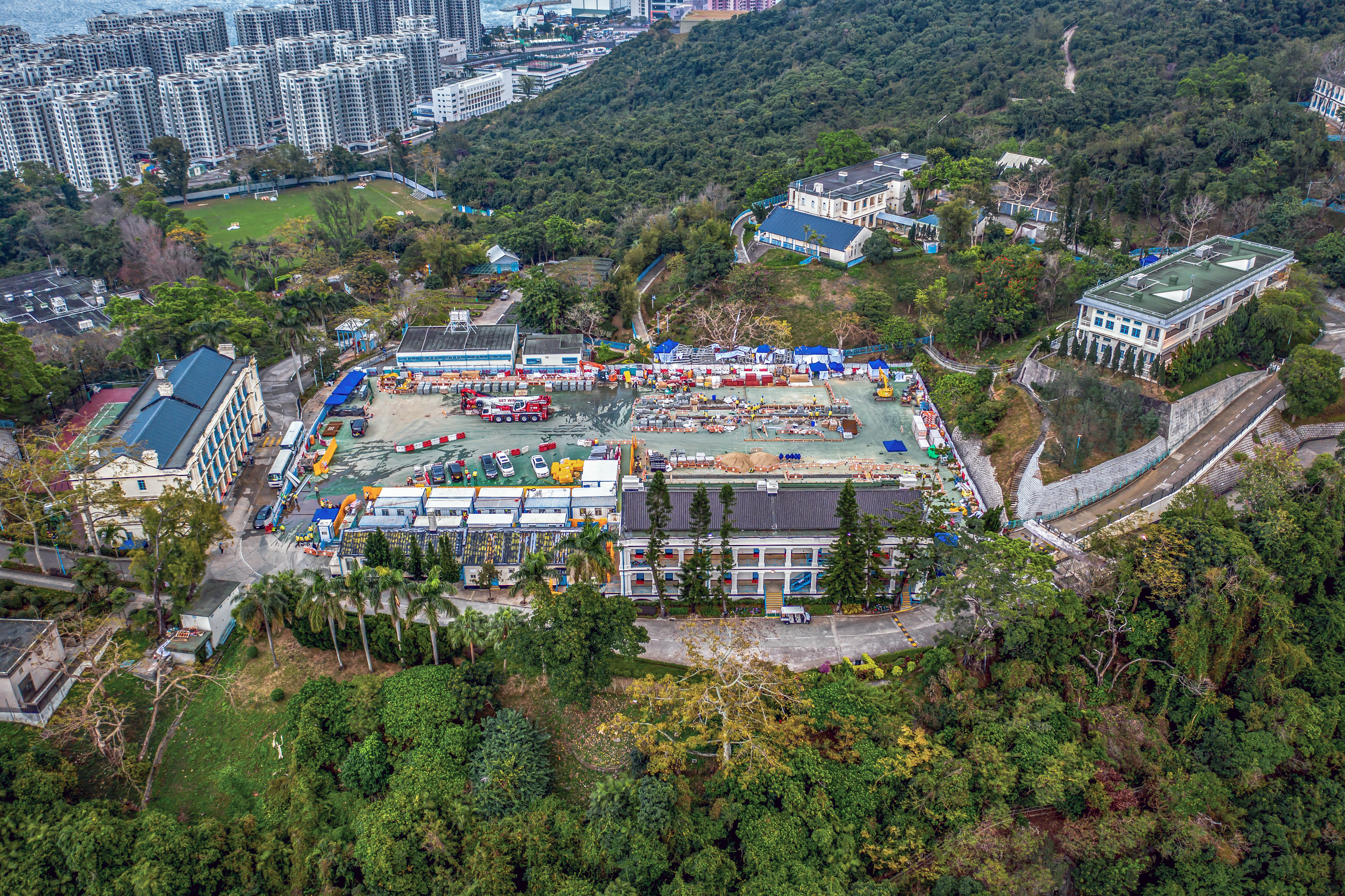 Lei Yue Mun Park and Holiday VillageThe largest quarantine site in Hong Kong is being built at full speed, with completion expected in one to two months as the need to isolate people grows amid the coronavirus outbreak.